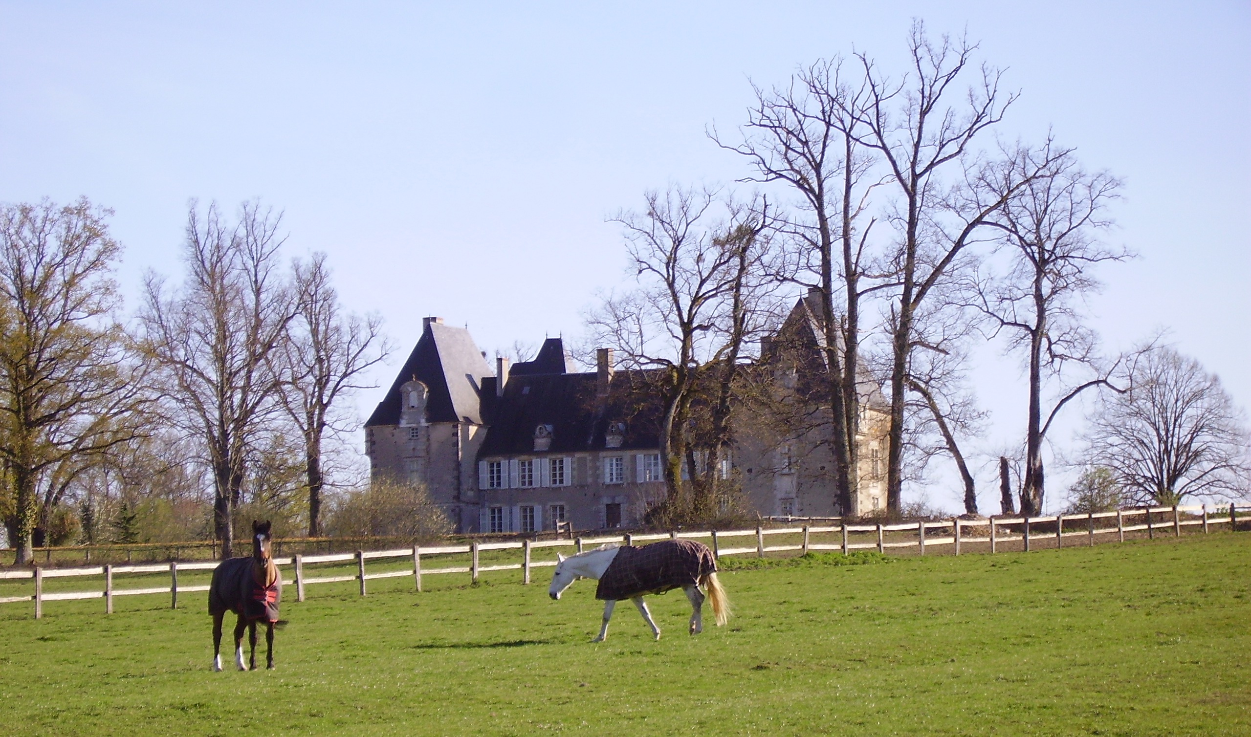 Château de La Vallée in Assigny, Cher, dating from the sixteenth century.